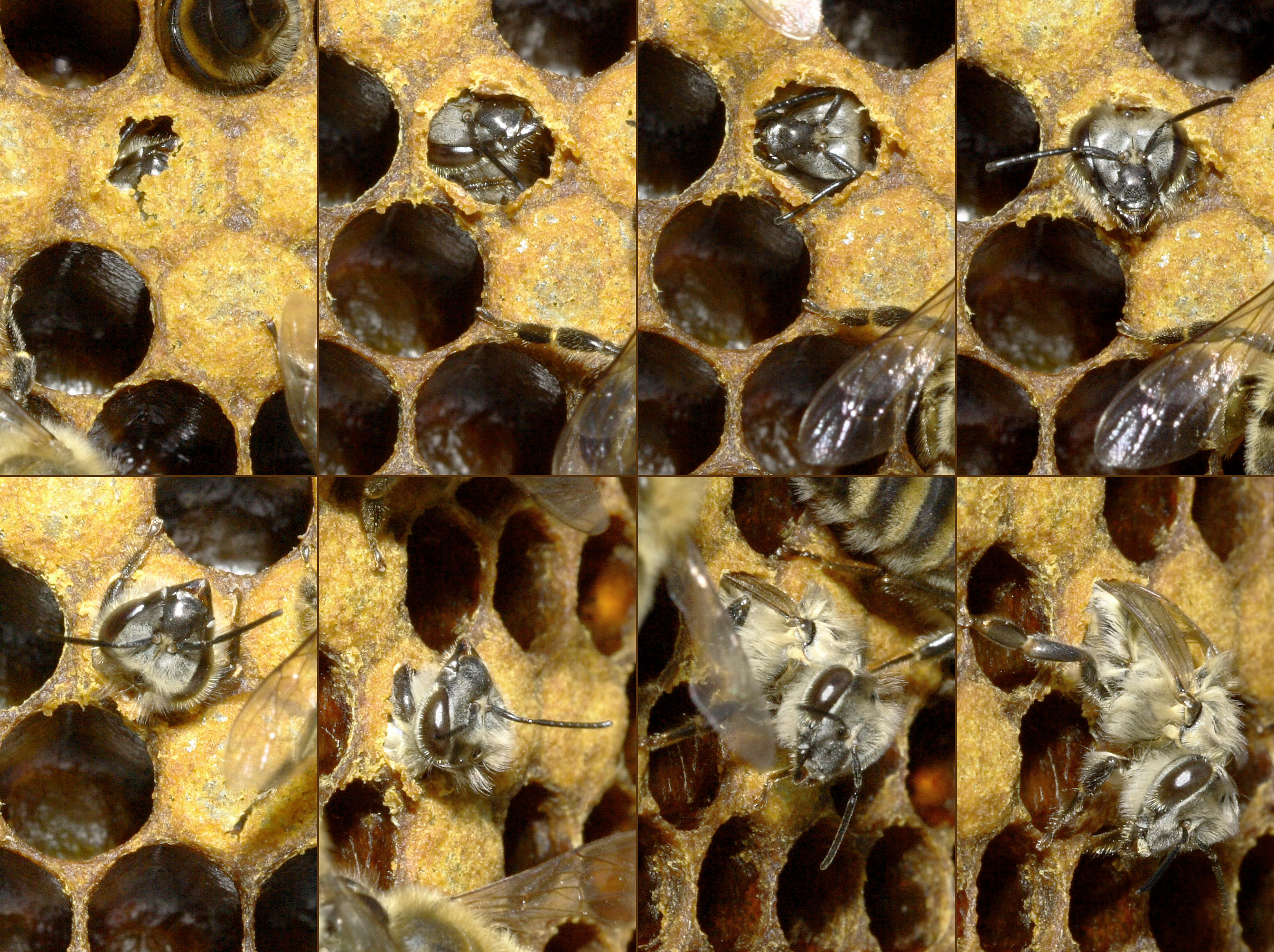 Honeybee emerging from cell. 21 days after the queen has laid an egg in the cell, the fully developed young bee chews through the wax cap and emerges out of her cell.